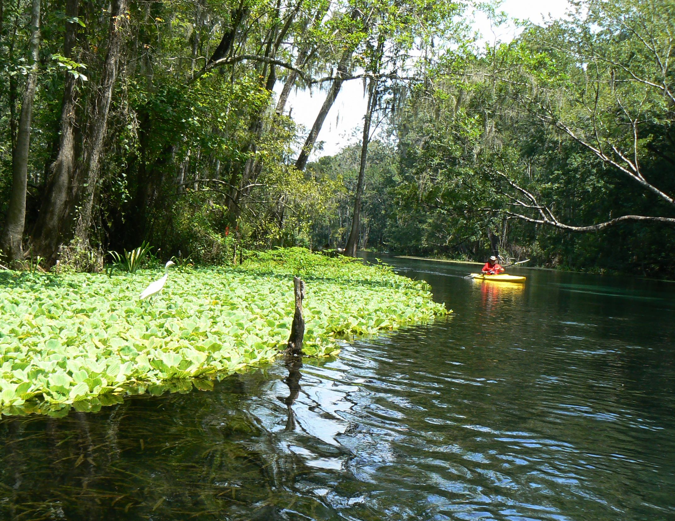 Kayaking on the Ichetucknee River at Ichetucknee Springs State Park, Florida